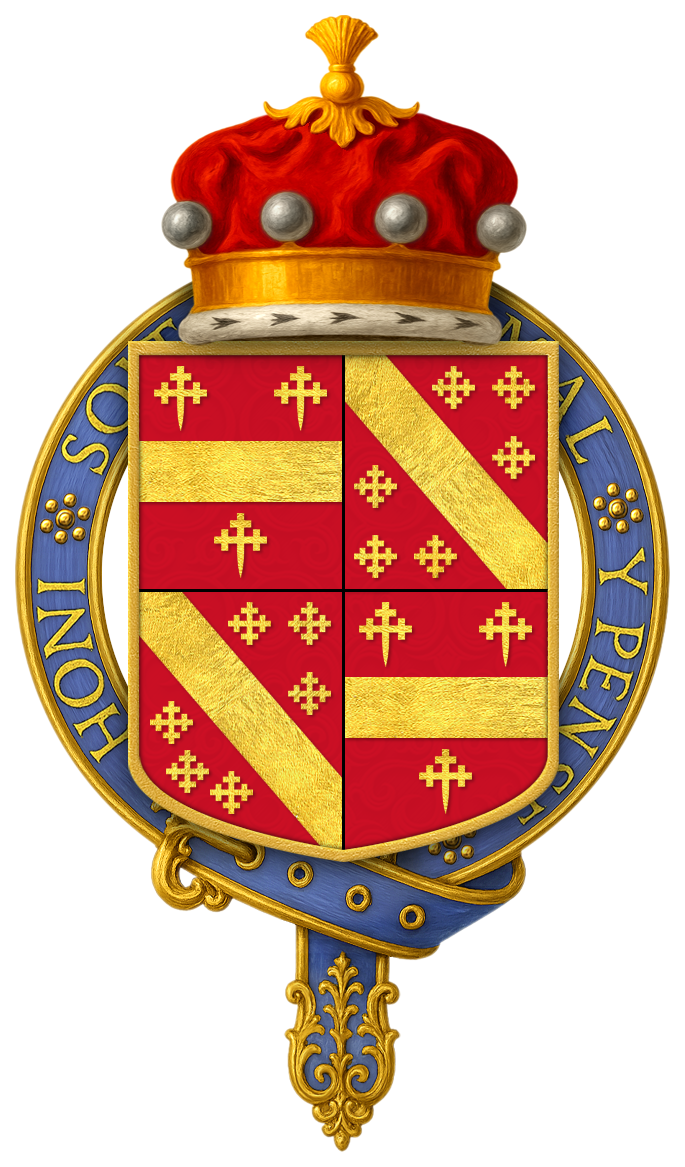 Garter-encircled coat of arms of William Ormsby-Gore, 4th Baron Harlech, KG, as displayed on his Order of the Garter stall plate in St. George's Chapel, Windsor Castle.